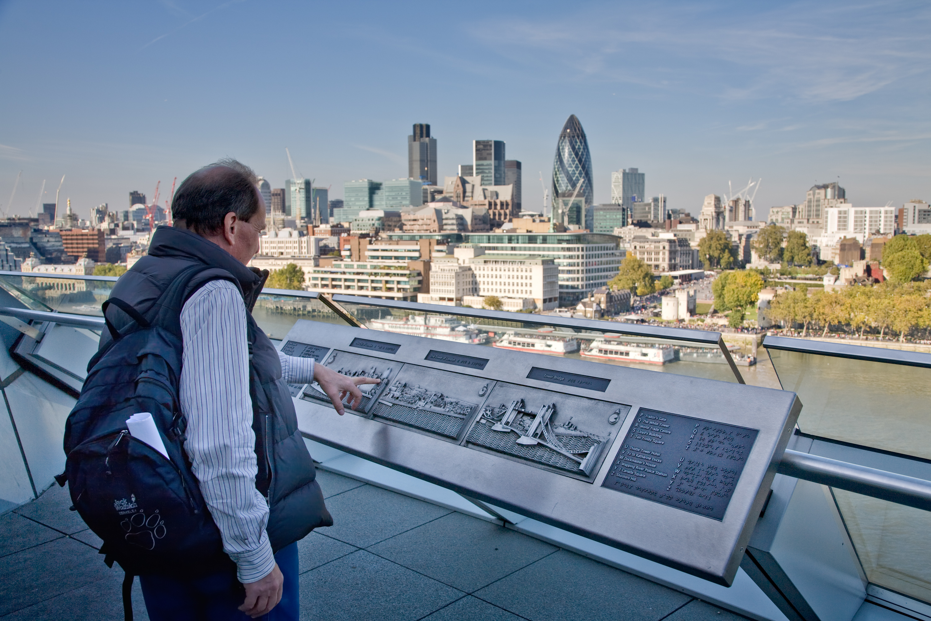 A man looks at the City of London skyline across the Thames from the London City Hall balcony. Taken by myself with a Canon 5D and 24-105mm f/4L IS lens.